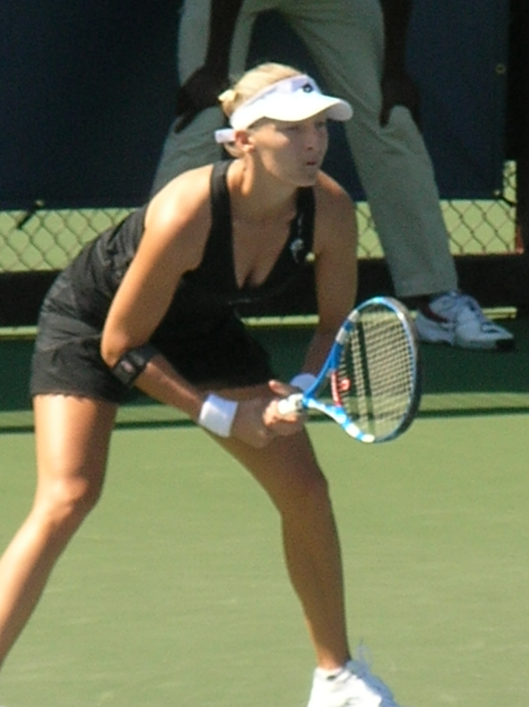 Mirjana Lučić in the second round of qualifying at the Bank of the West Classic at Stanford. She defeated Tamaryn Hendler 6-2, 6-4.